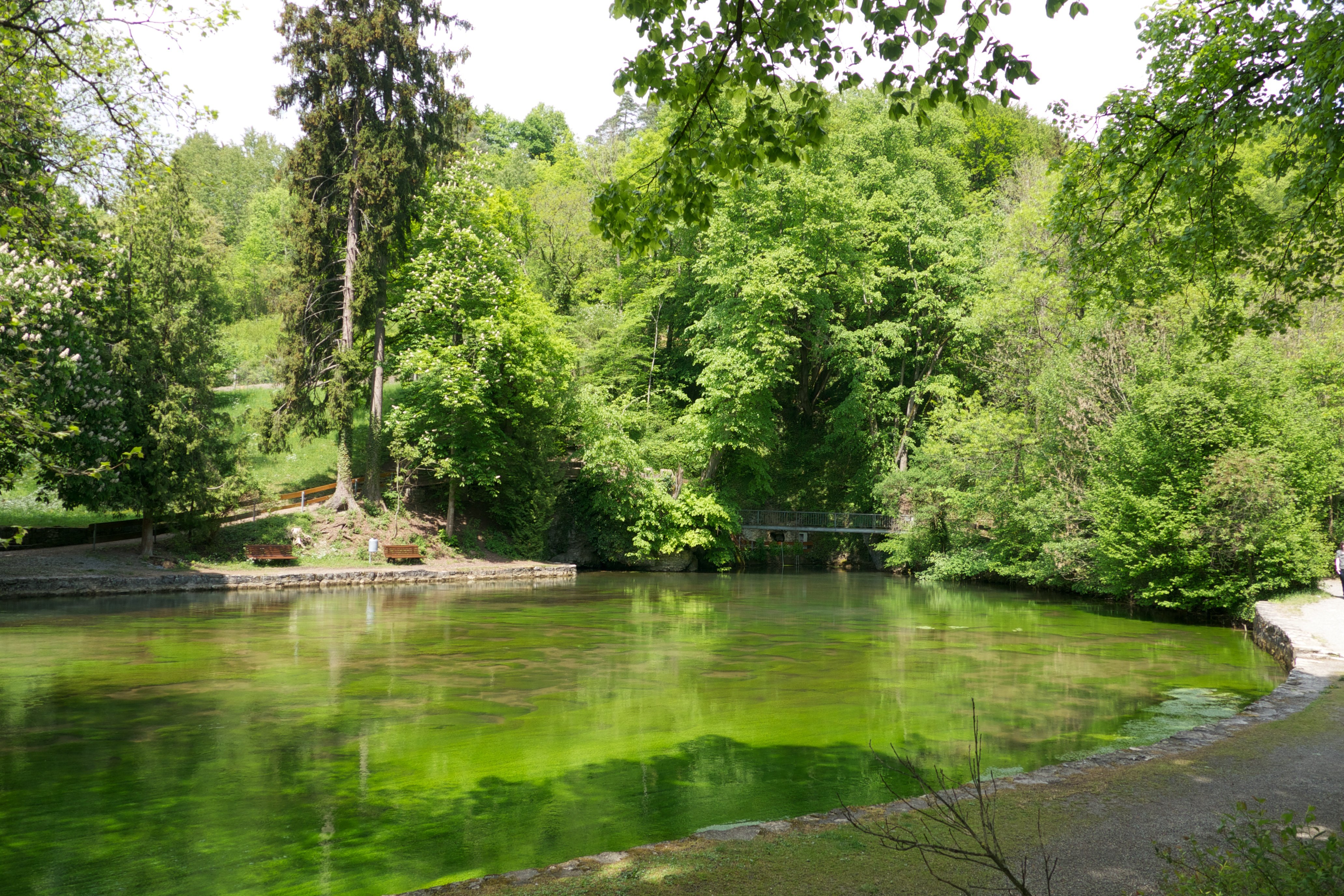 karst spring Aachtopf, source of the river Radolfzeller Aach in Baden-Württemberg, Germany